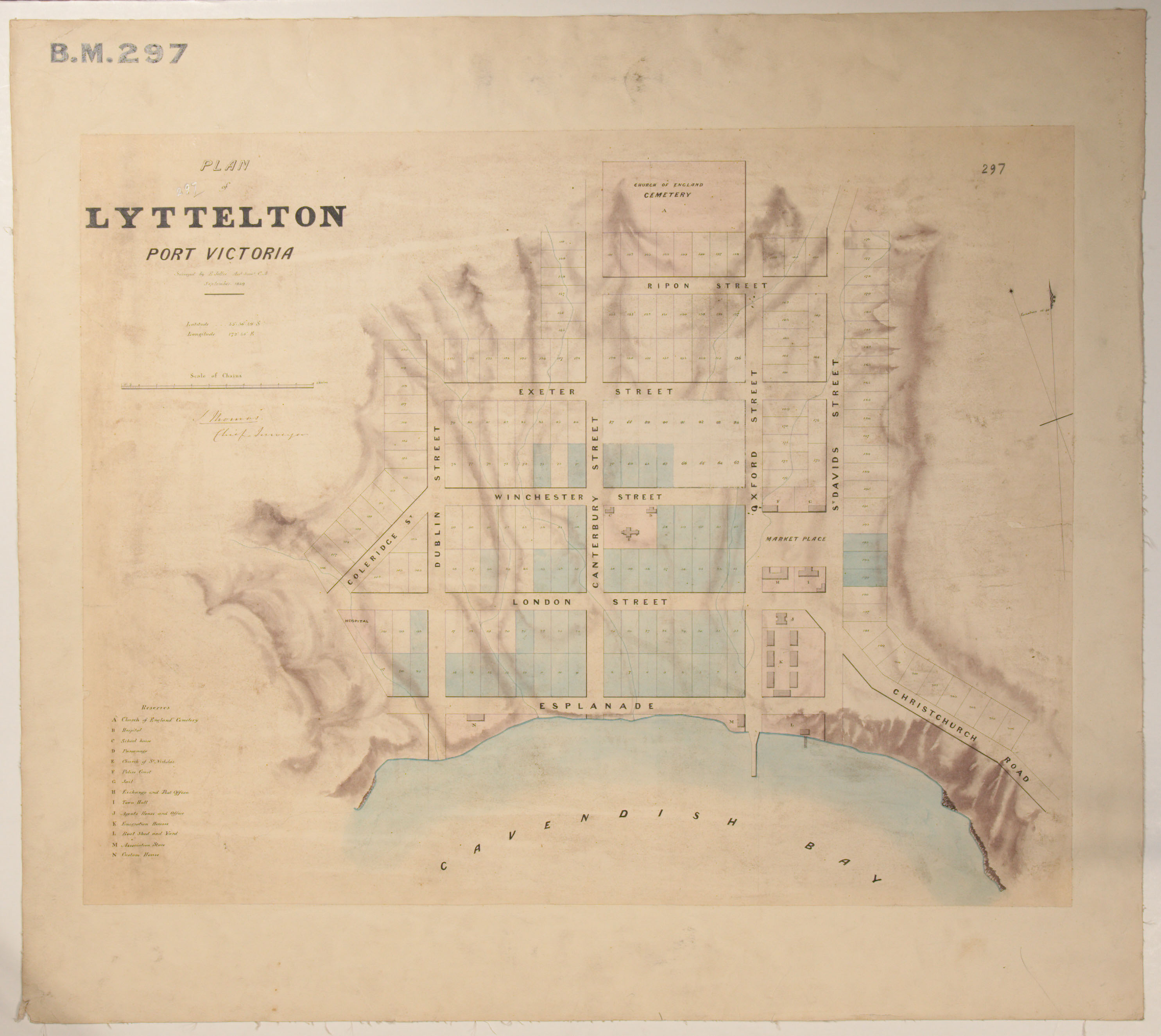 Black map of Lyttelton by Edward Jollie for Joseph Thomas